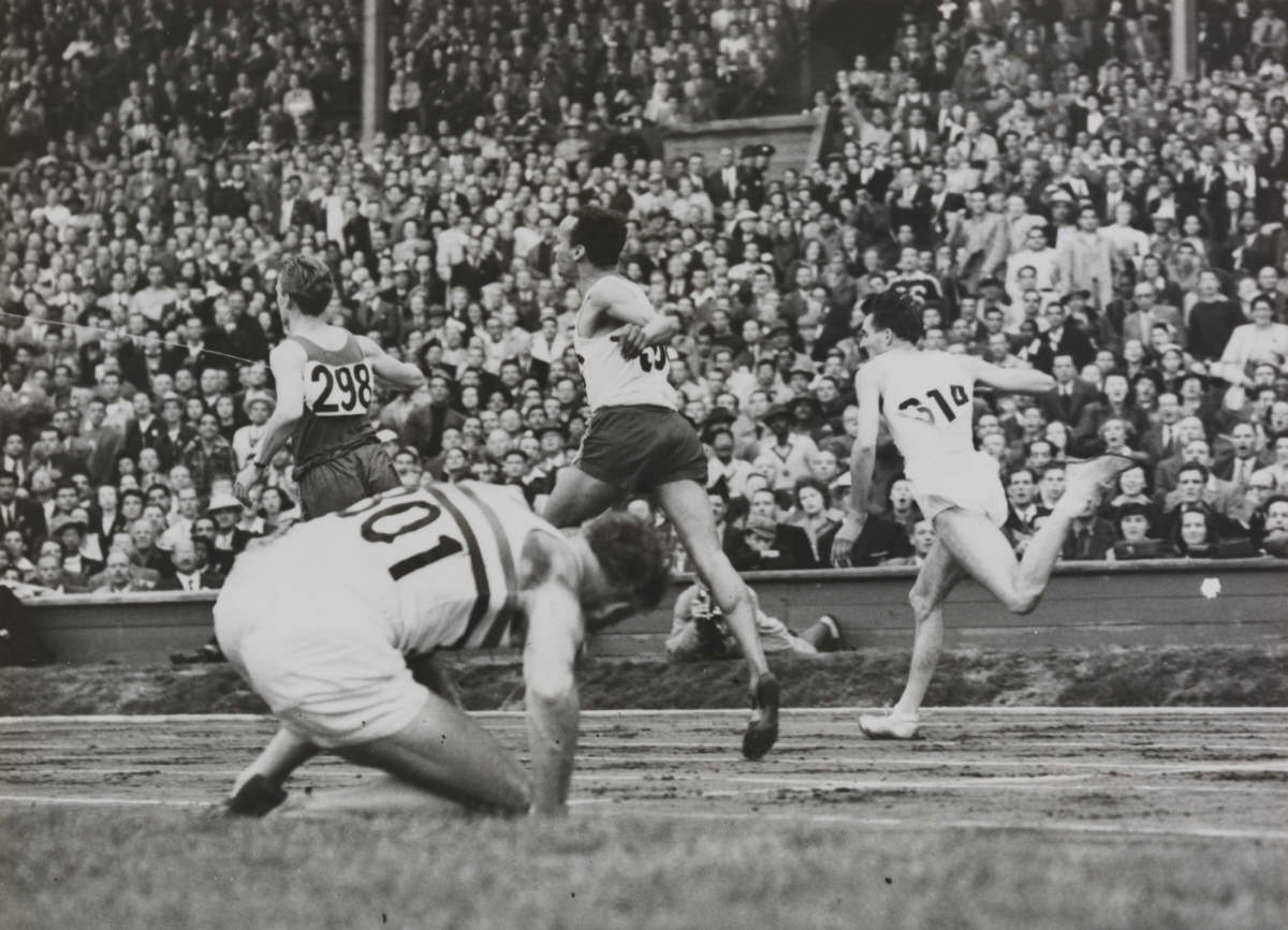 Don Finlay fell at the winning post after leading at the last hurdle. Don Finlay (1909-1970) was the British team Captain for the 1948 Olympics and was chosen to take the Olympic Oath. Daily Herald Archive at the National Media Museum